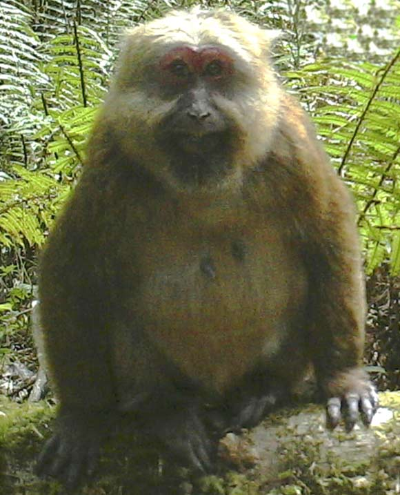 Female white-cheeked macaque